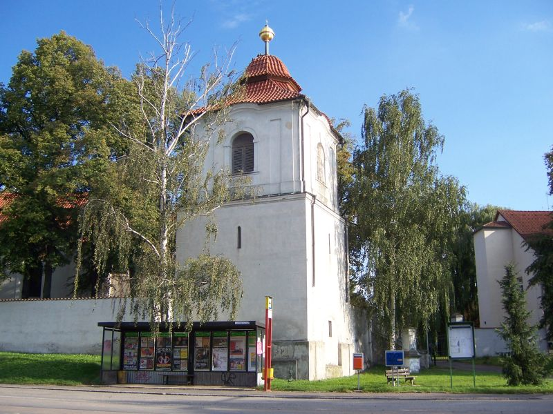 Prague, Třeboradice, a bell tower by the Assumption church.